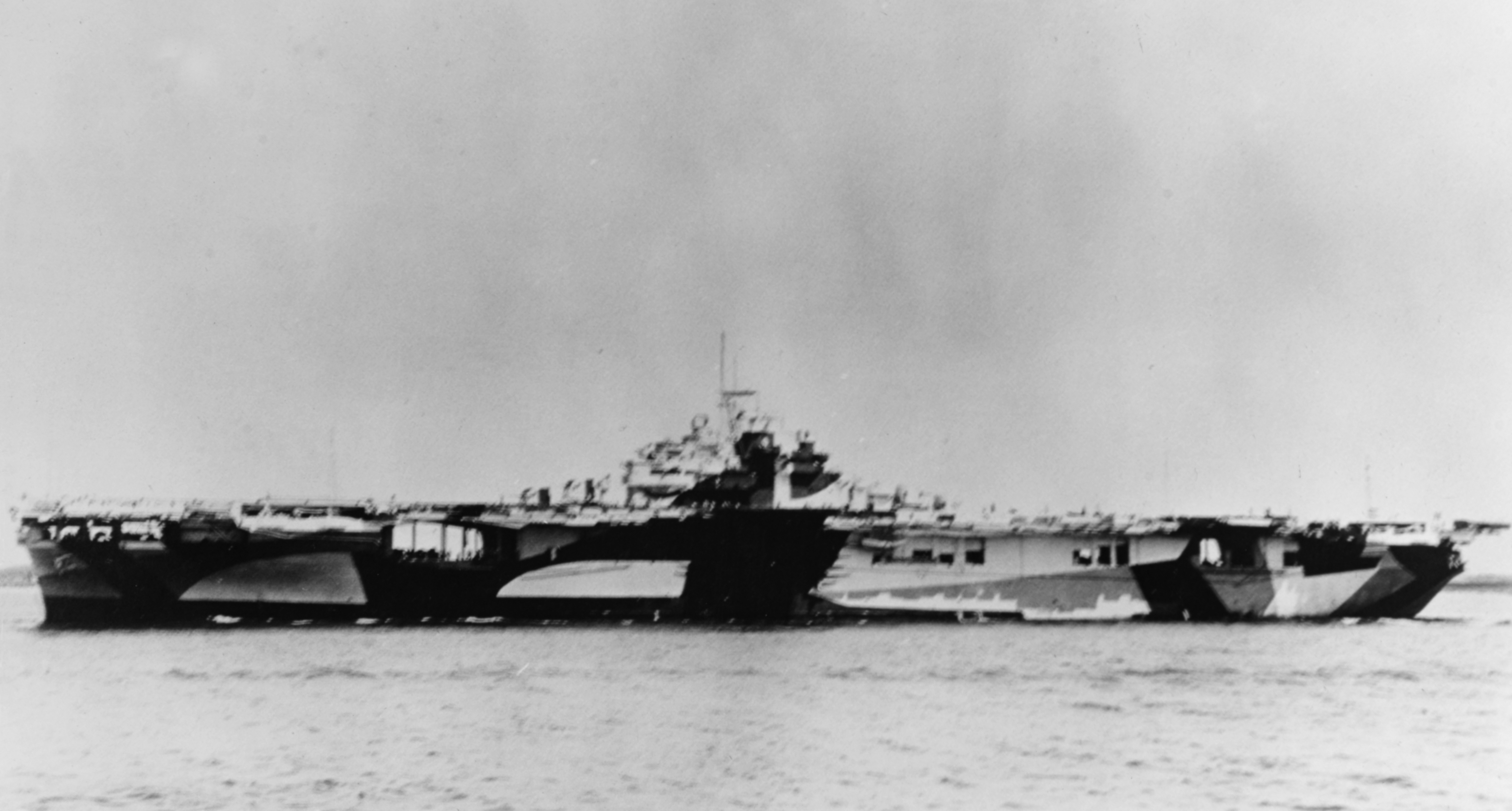 The U.S. Navy aircraft carrier USS Franklin (CV-13) underway. She had been commissioned on 31 January 1944 wearing Camouflage Measure 32, Design 6A. Her port side was repainted in Camouflage Measure 32, Design 3A in April 1944 (shown here). Note that the wartime censor has removed the radar antennas.